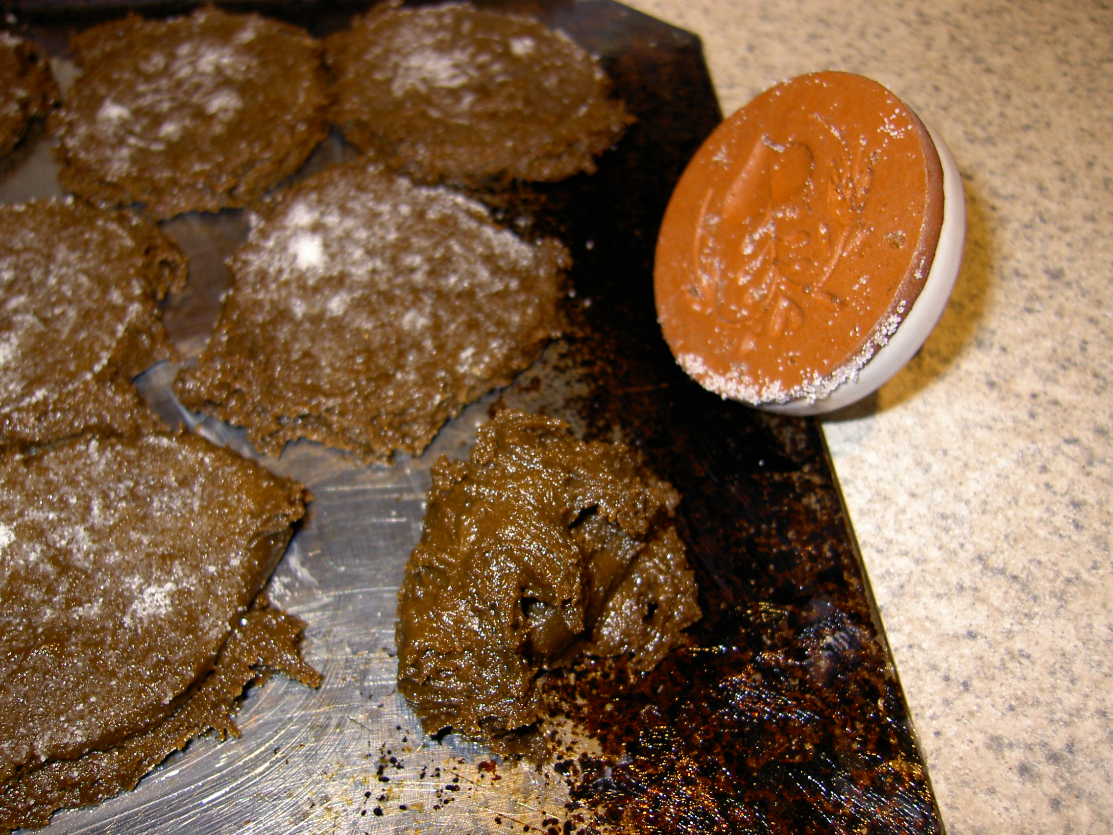 Molasses cookies from the Wikibooks Cookbook recipe by that title, baked and photographed by Mark Fickett. (Beyond the original 2.5c flour, the cookies in this picture had perhaps half a cup. Soy milk was substituted for regular milk - to no ill effect - since that's what was on hand.)